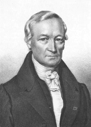 Friedrich Tiedemann (August 23, 1781 - January 22, 1861)